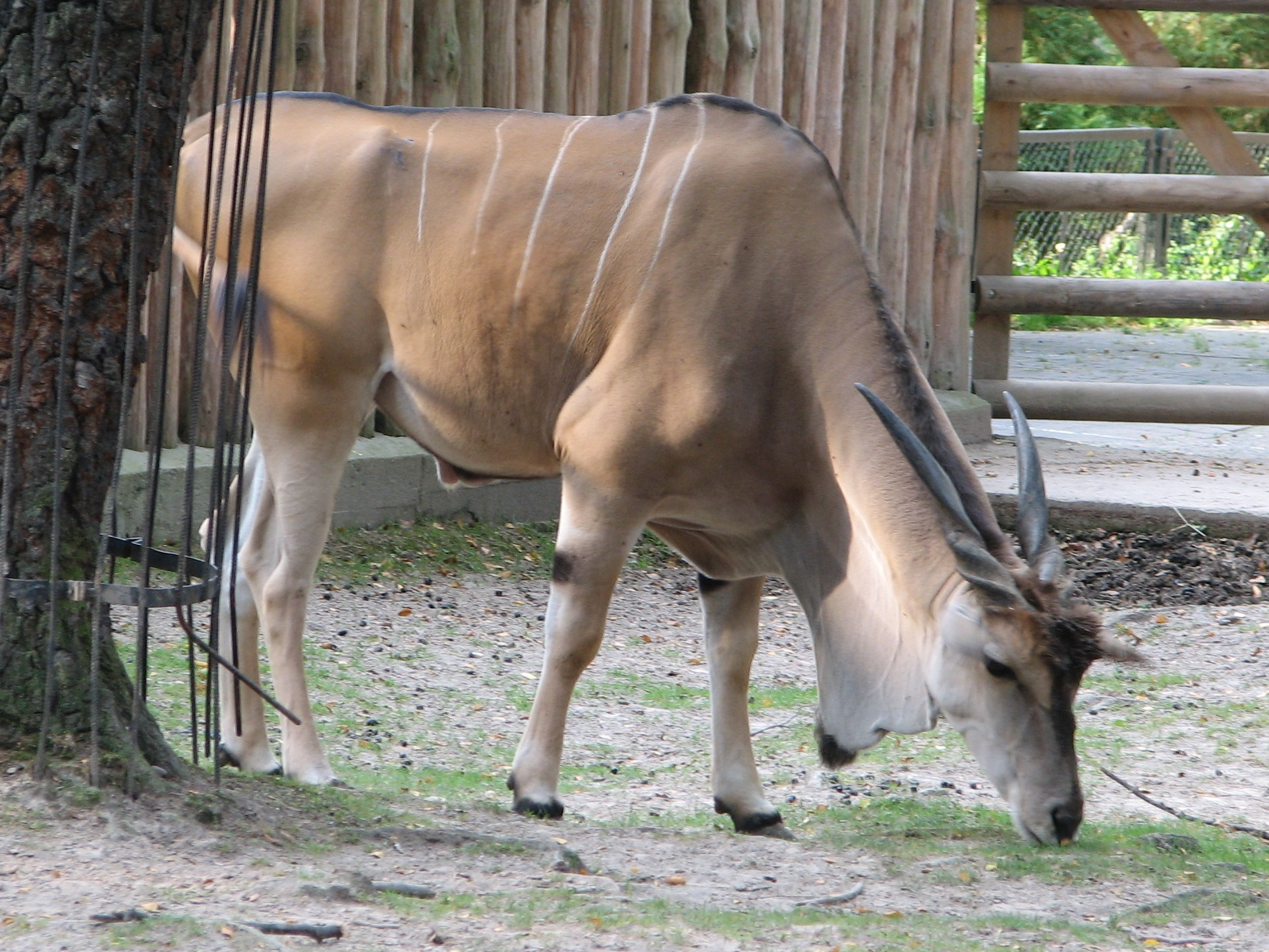 Common Eland, Zoo in Kraków, Poland